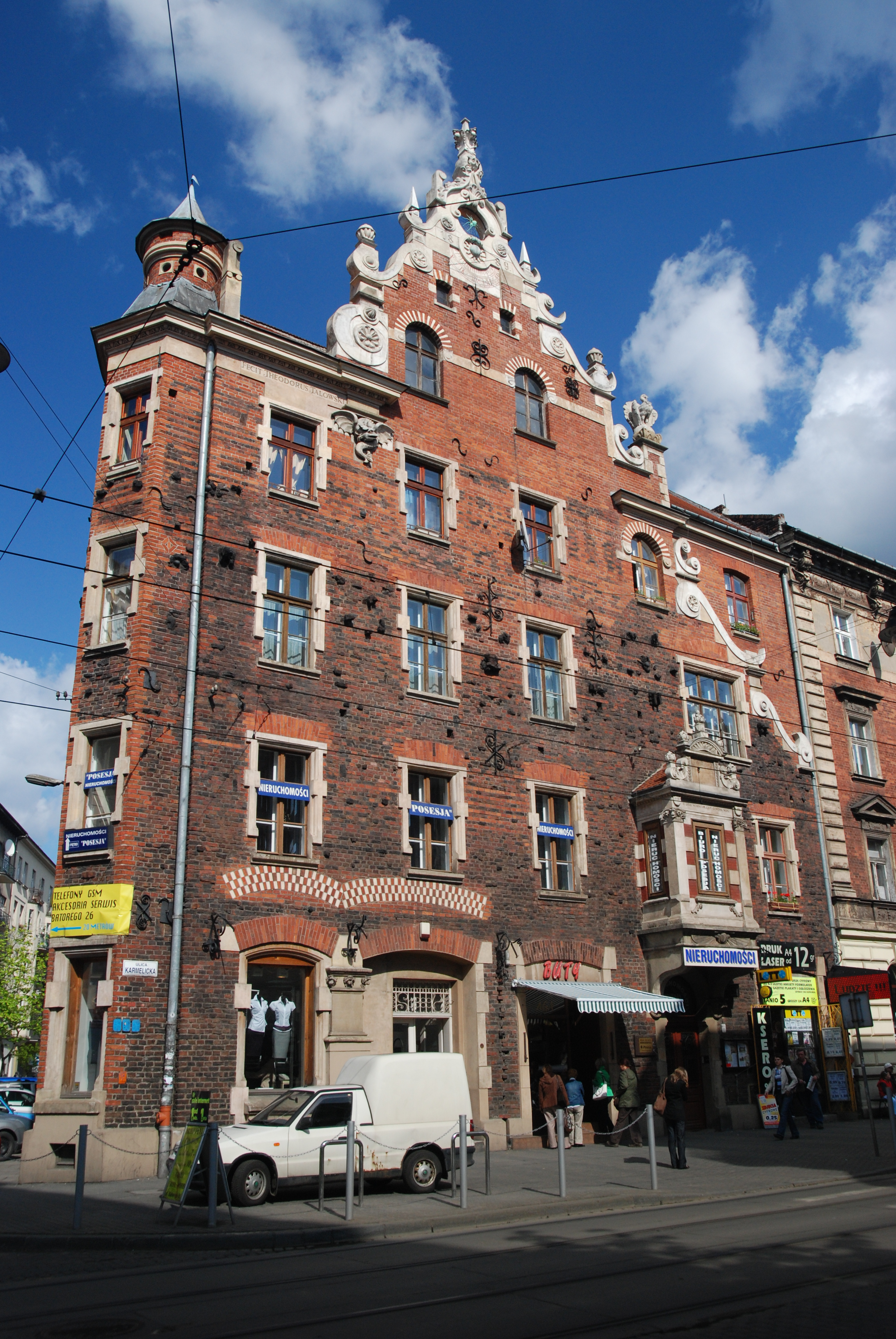 "Pod Pająkiem" house by Teodor Talowski, polish architect. Karmelicka/Batorego street, Kraków, Poland